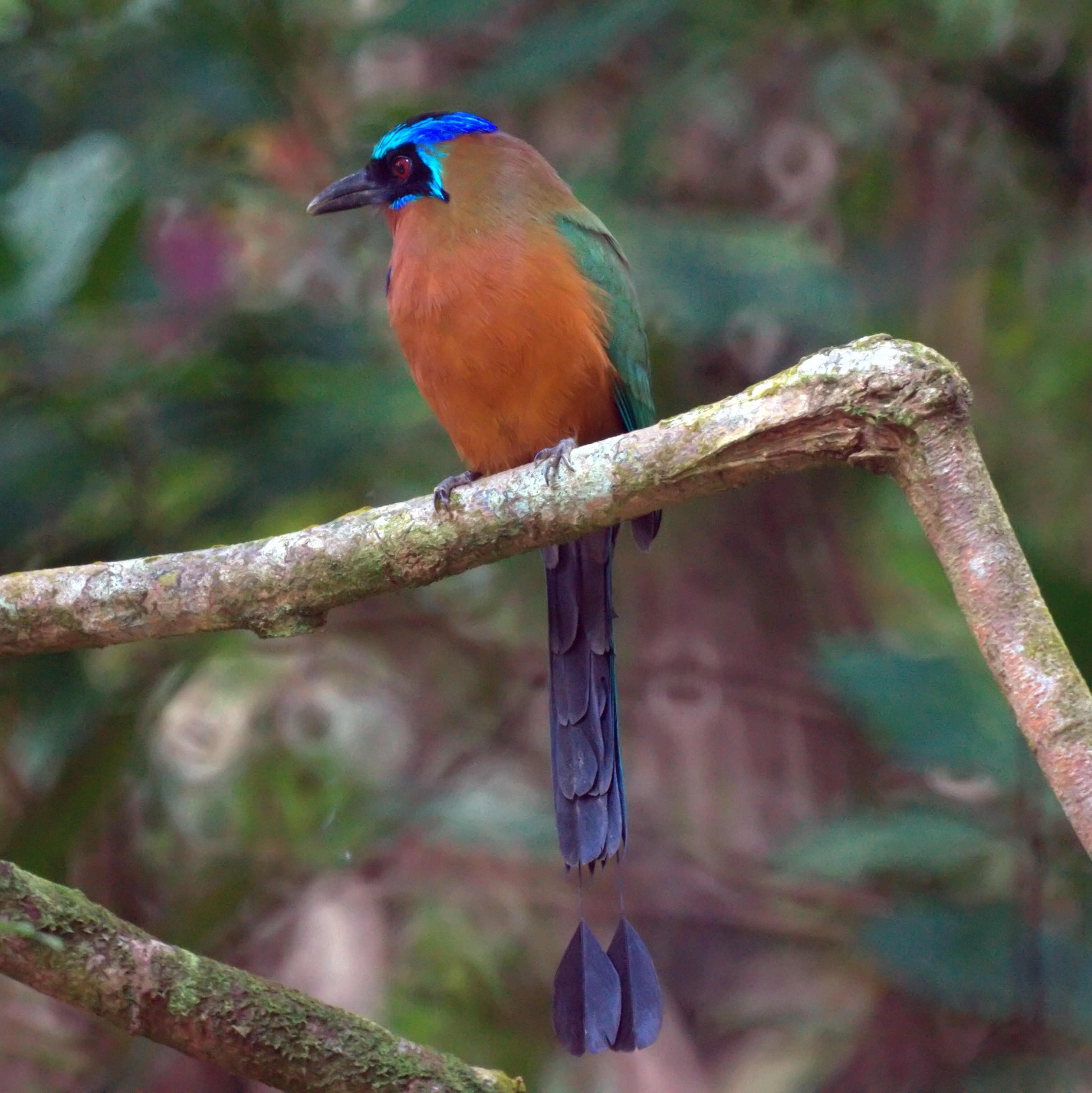 Blue-crowned Mot Mot